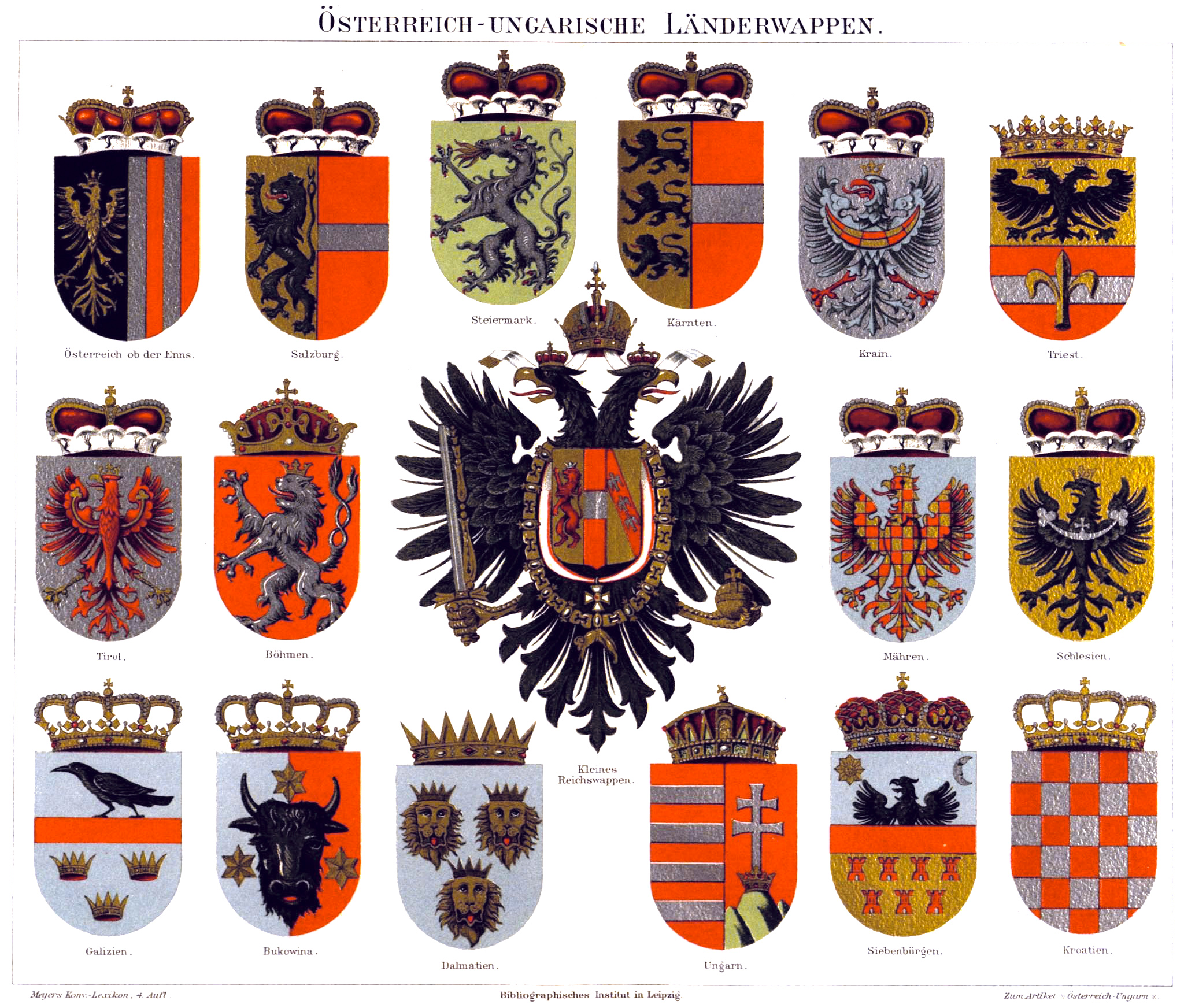 Coats of arms of Counties of Austria-Hungary.